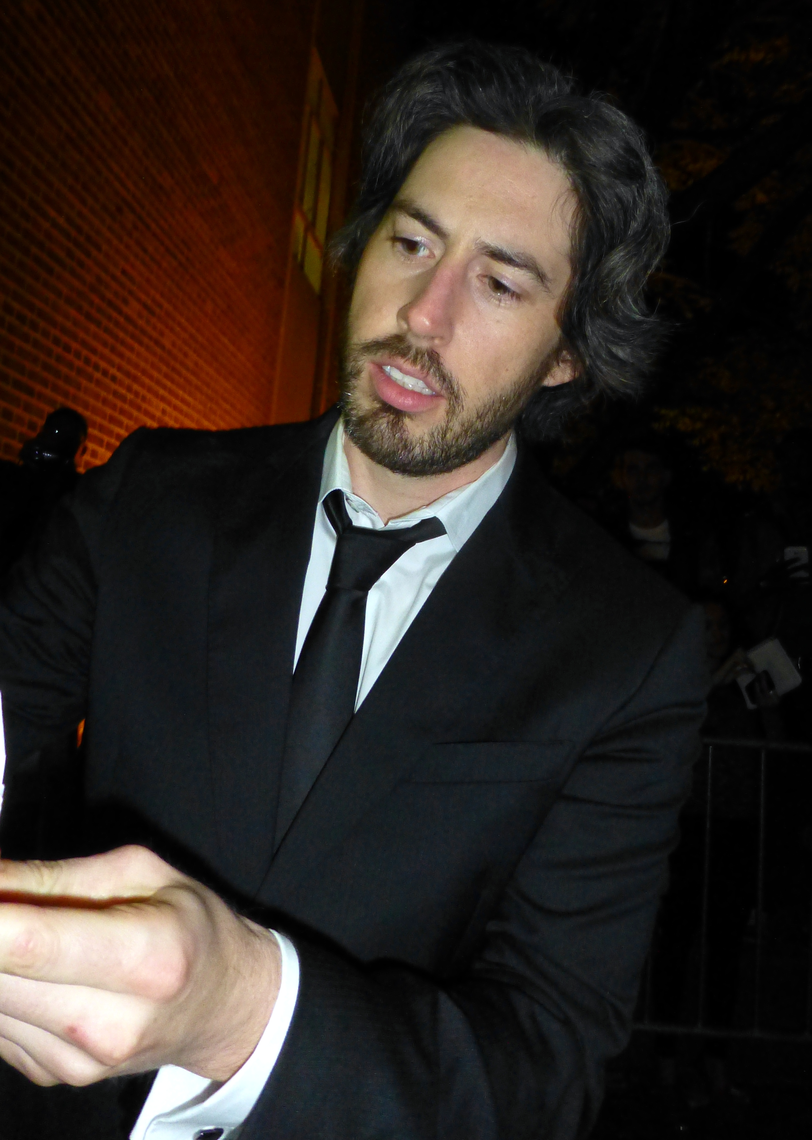 Jason Reitman at the premiere of Men, Women, and Children, 2014 Toronto Film Festival